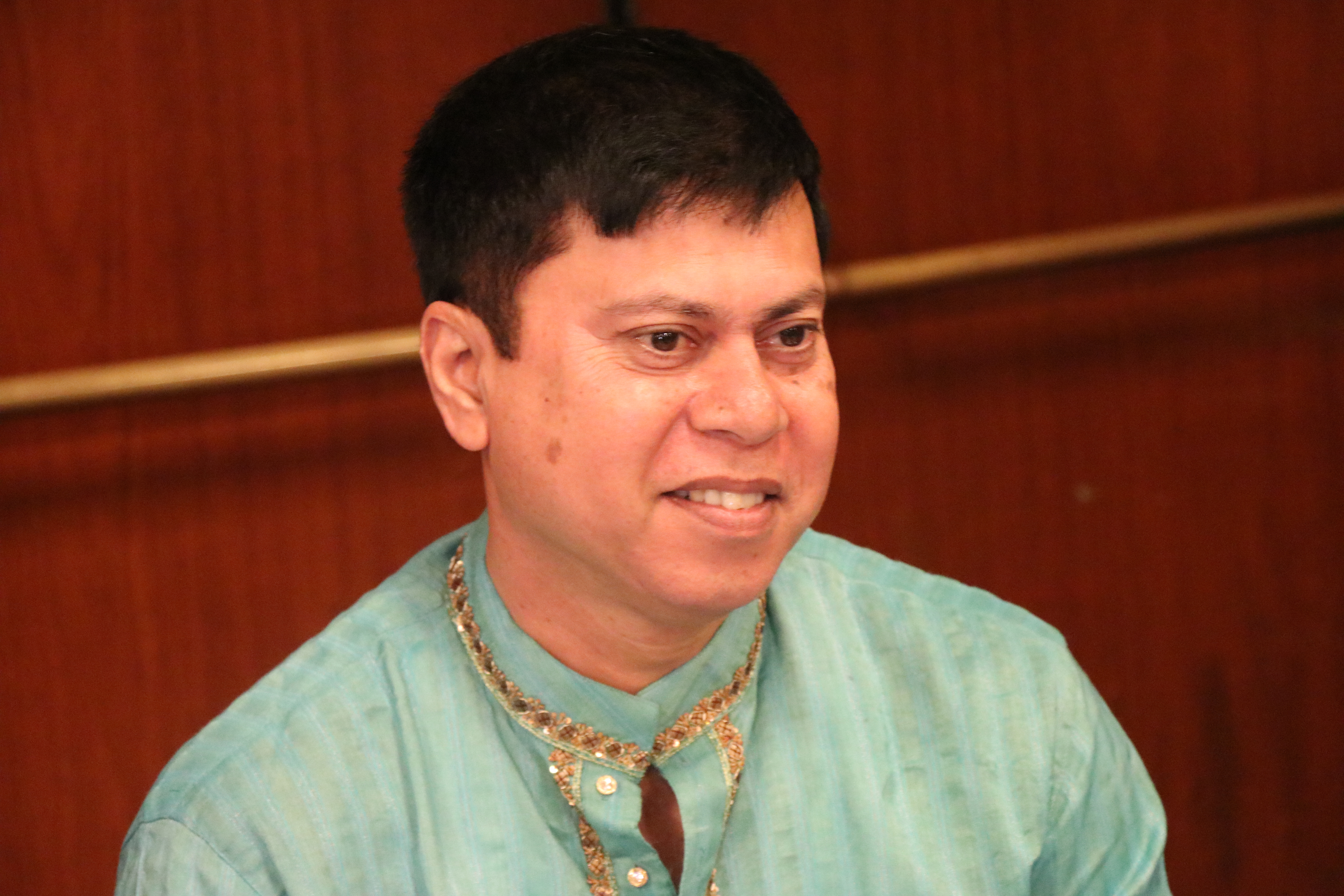 Minhajul Abedin Nannu, the former Bangladesh National Cricket player